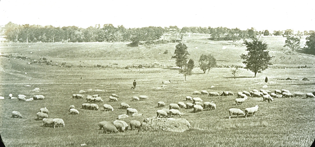 Franklin Park, Boston